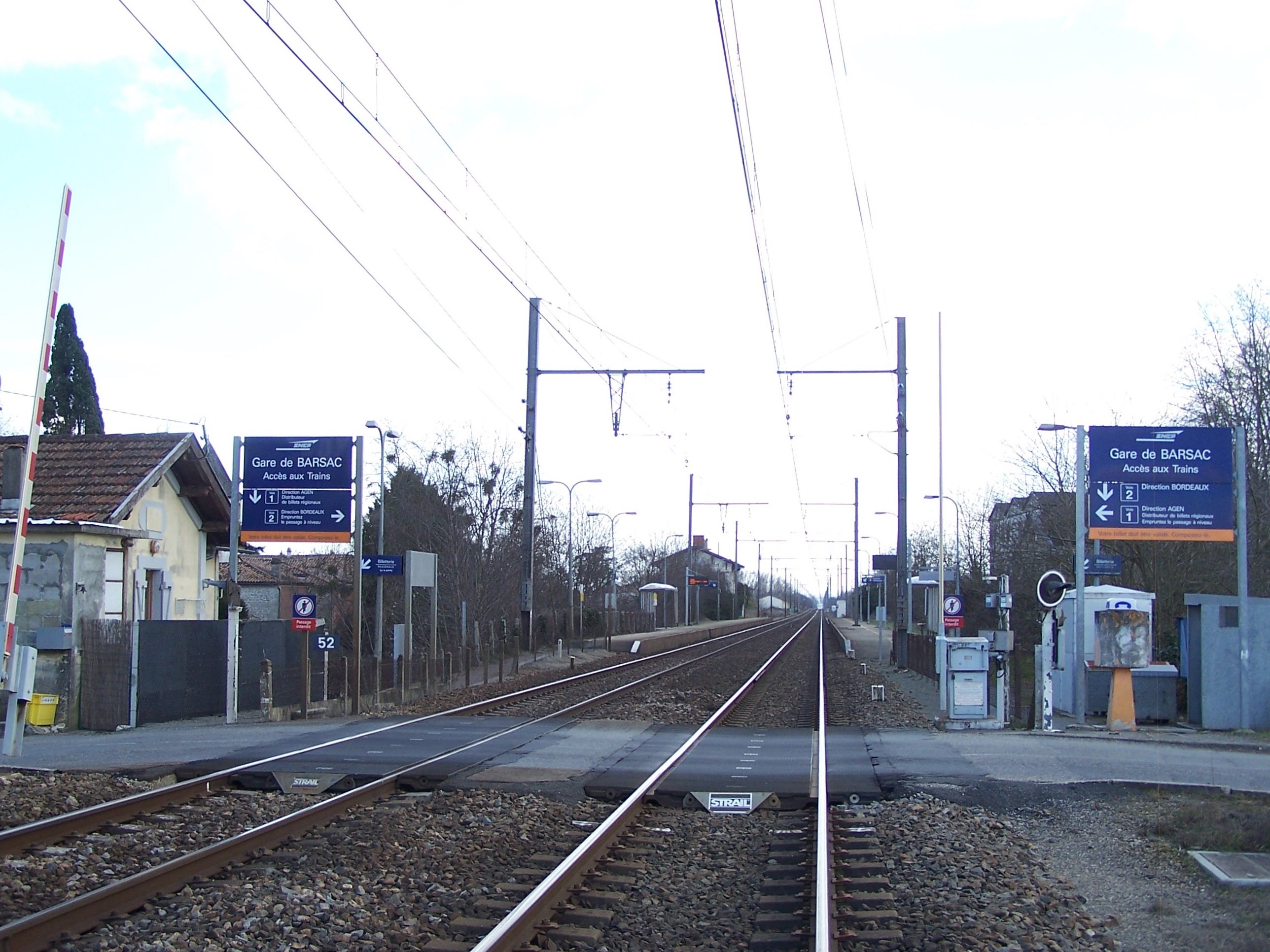 Train station of Barsac (Gironde, France)